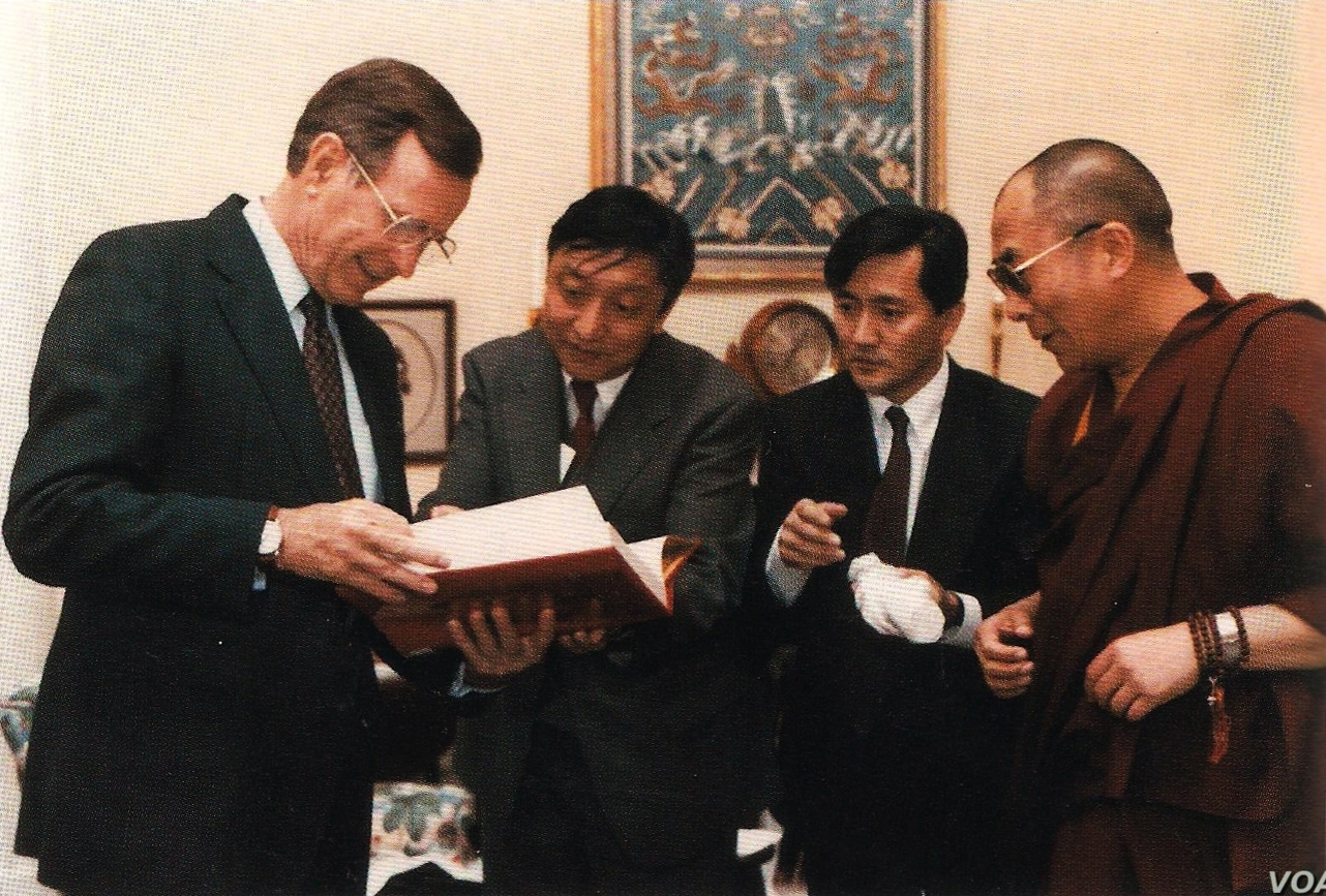 President George H.W. Bush with Lodi Gyari, Tenzing N. Tethong and His Holiness the Dalai Lama in 1991